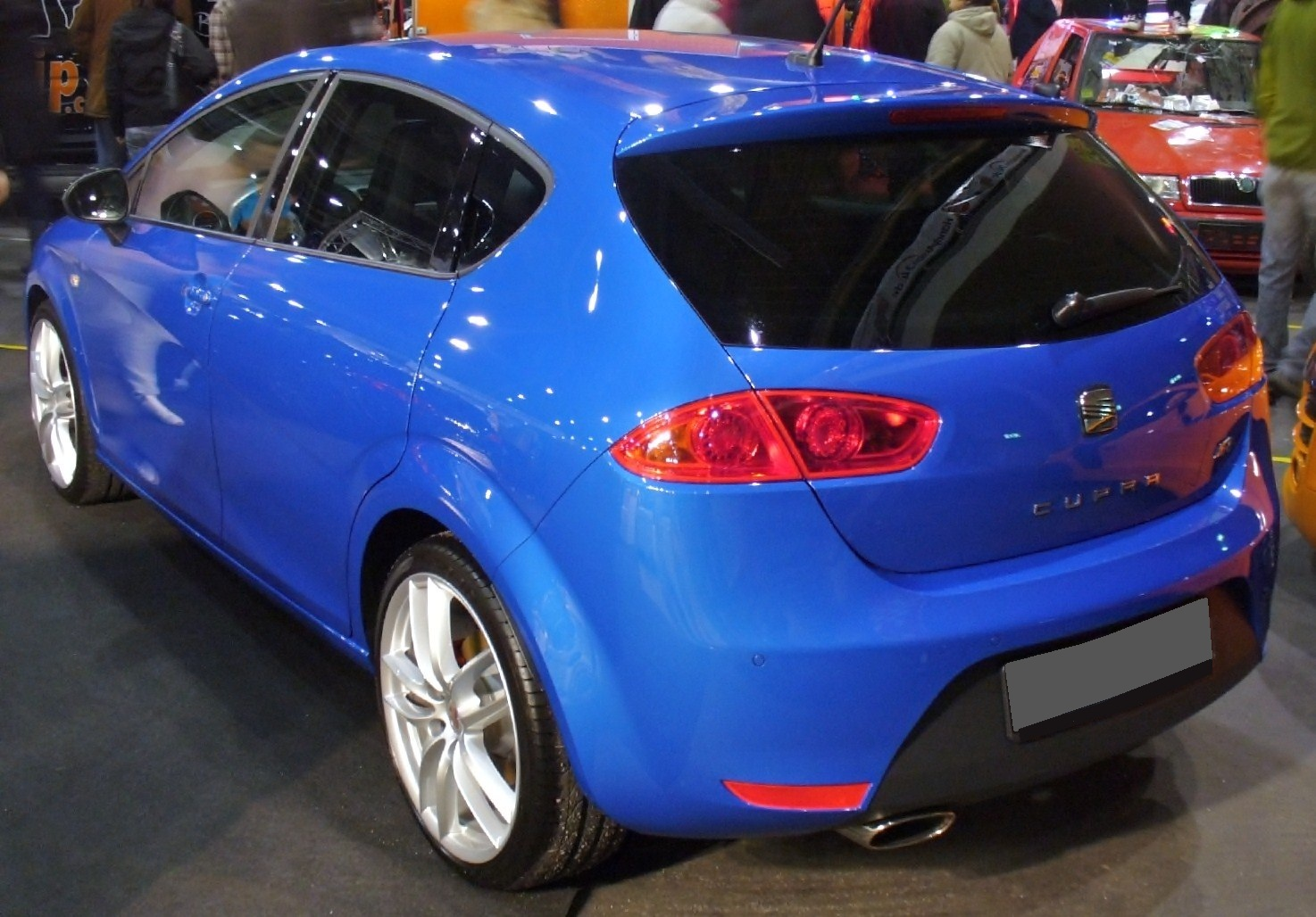 Seat Leon